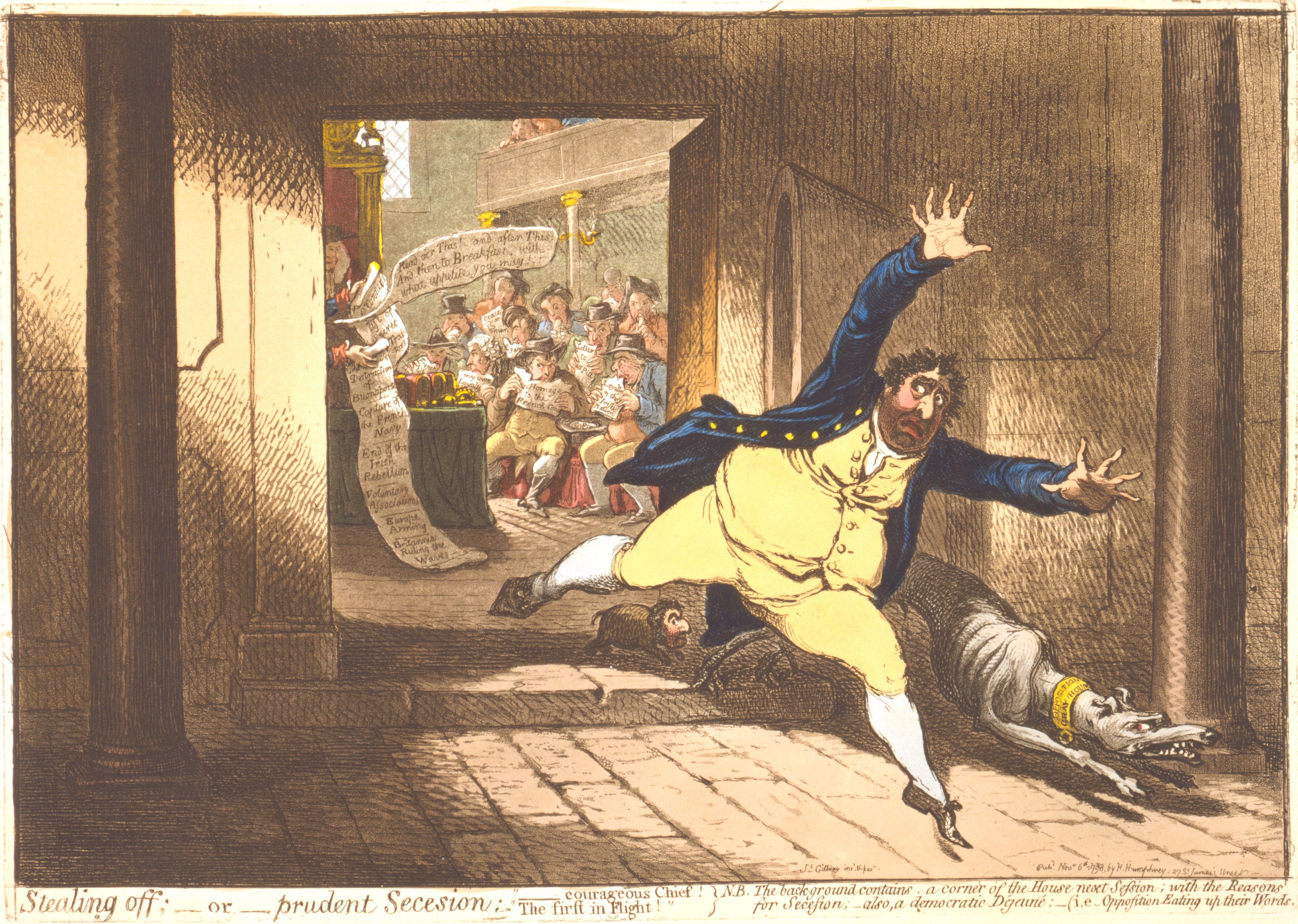 SUMMARY: Charles Fox fleeing the House of Commons in terror, accompanied by a fierce greyhound wearing a collar marked "Opposition Grey-hound". A small animal with the head of M.A. Taylor runs behind. In the background, the Opposition benches with members of the Opposition eating papers marked with the positions of the party. The hands of Pitt are shown holding a long scroll of paper enumerating the government's positions. According to Wright & Evans, Historical and Descriptive Account of the Caricatures of James Gillray (1851, OCLC 59510372), p. 160, "On the secession of Fox from Parliament during this session, to lament, as his party said, in his retirement, the evils which his zeal and talents could not avert. The Tories said, on the contrary, that he had deserted his post, because he could no longer conceal his mortification, that all his endeavours to do mischief had failed; and he is here represented making his exit in a panic, caused by the discoveries of his pretended secret practices with the Irish rebels, and by the recent successes of Government, accompanied only by his two faithful dogs, Grey and the diminutive M. A. Taylor. Sheridan and the rest of the party keep their places, although thrown into the utmost confusion by the overthrow of their hopes."